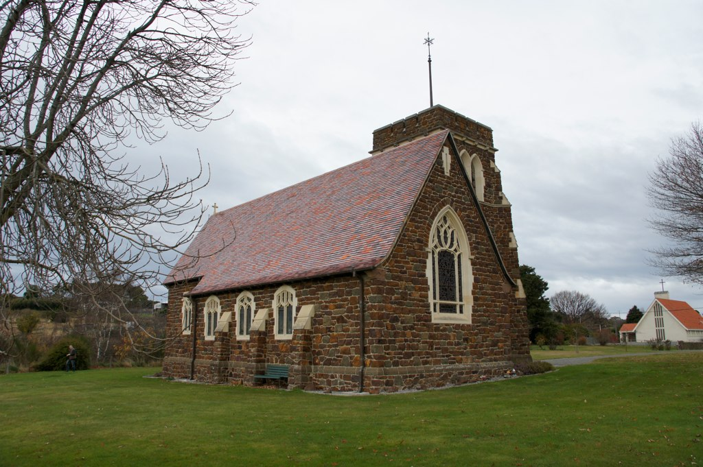 Maheno's second St Andrew's Church